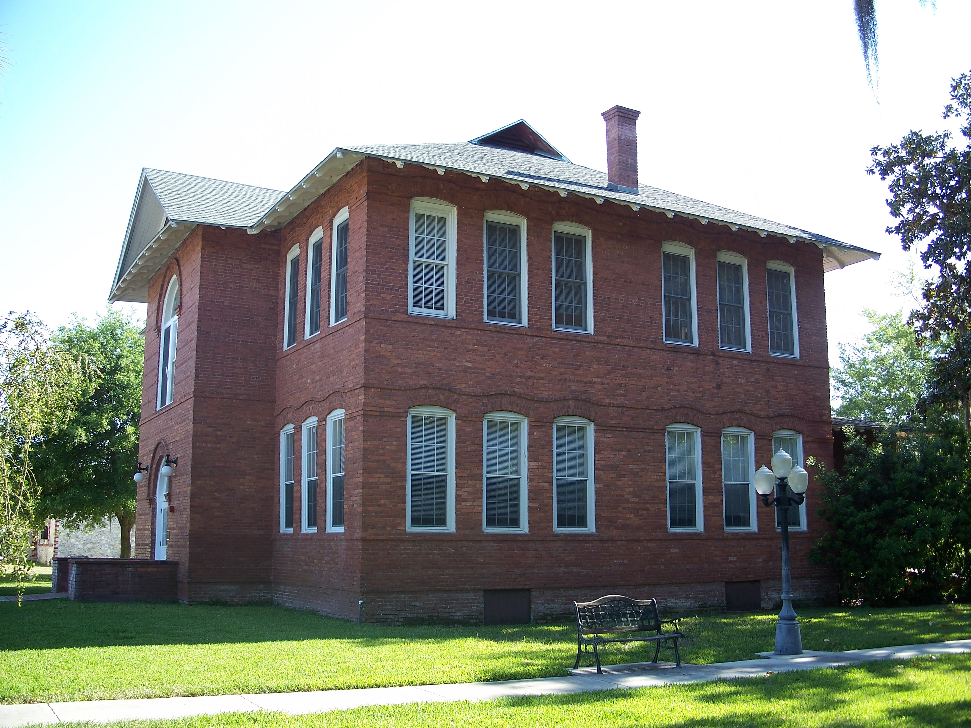 A school in the Newberry Historic District, in Newberry, Florida